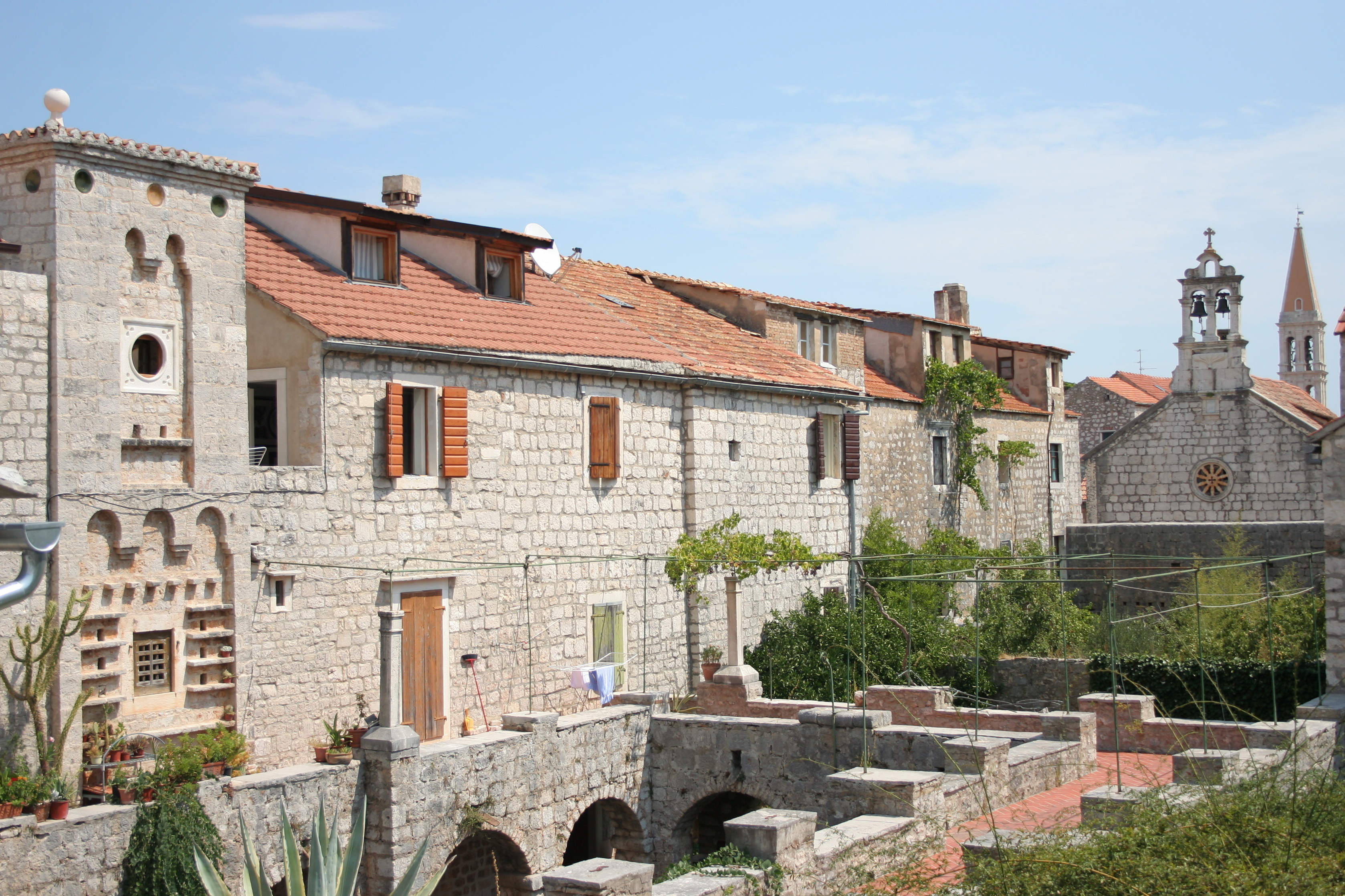 Tvrdalj castle